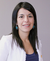 Official portrait of Alejandra Candia Díaz as Undersecretary of Social Evaluation of Chile